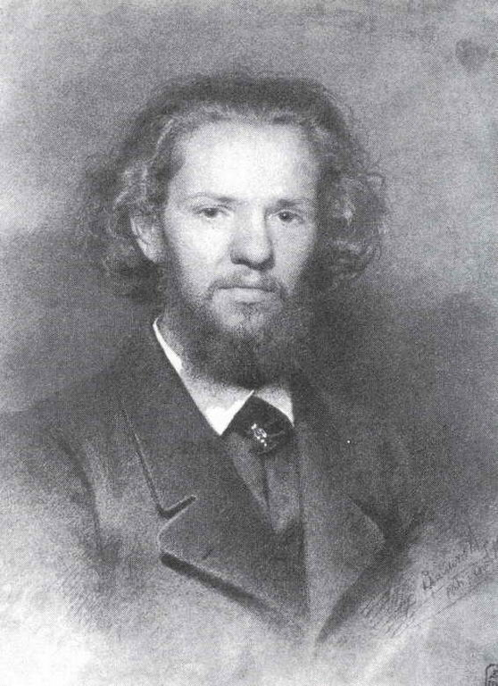 Ivan Nikolaevich Kramskoi (1837-1887) Portrait of the Artist Johann Gottlieb Wenig